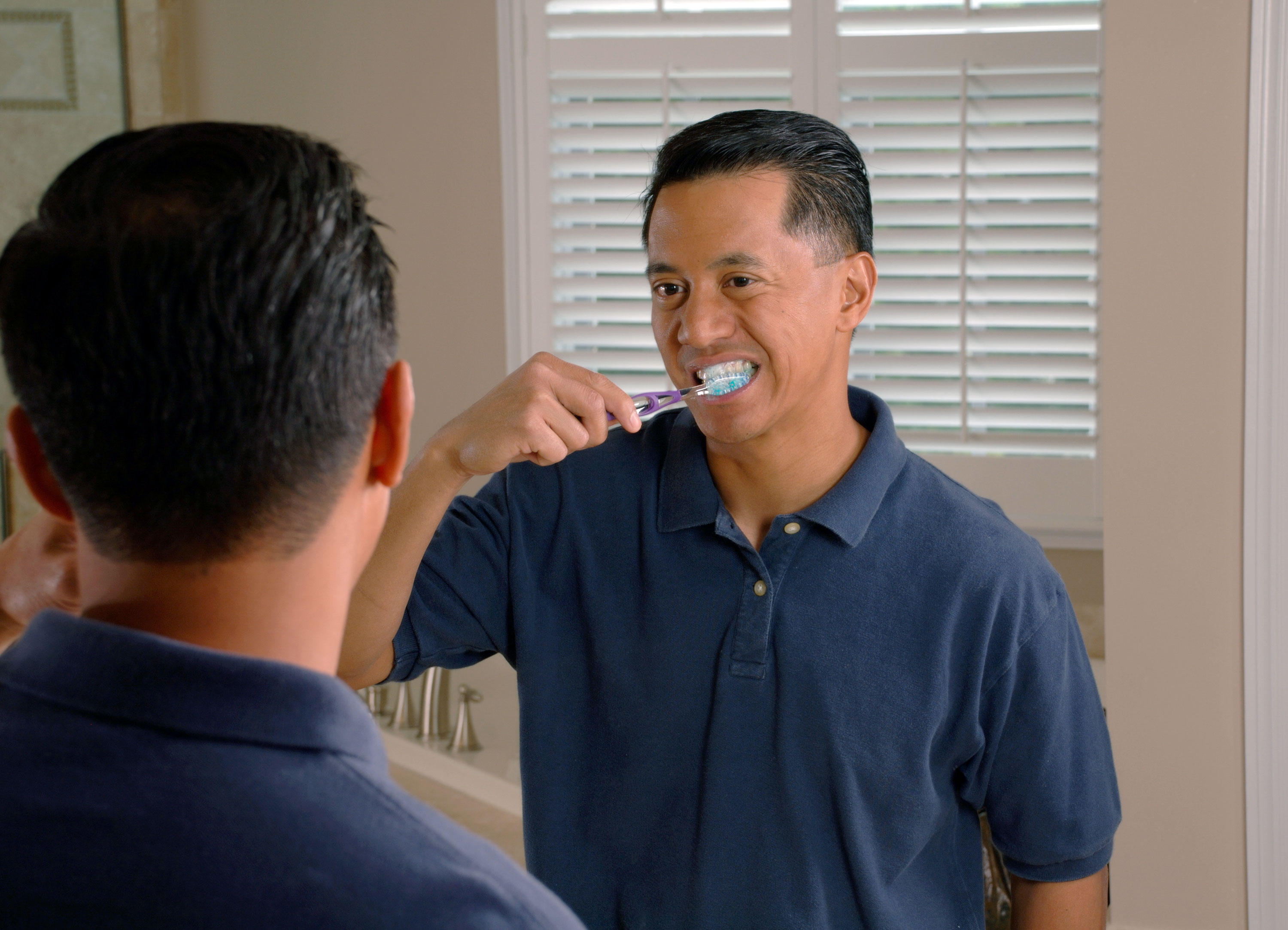 Title Man Brushing Teeth Description An Asian man brushing his teeth while looking in a mirror. Topics/Categories People -- Adult Type Color, Photo Source National Cancer Institute (NCI)